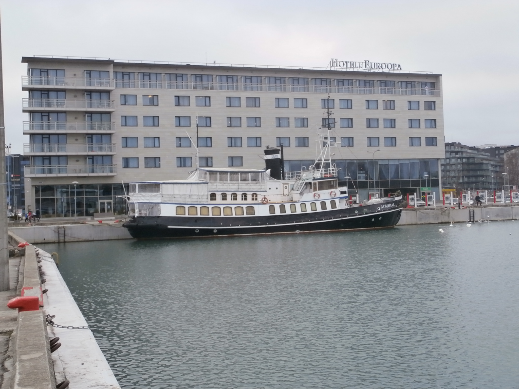 Admiral at Quay 20 in Tallinn 1 January 2014